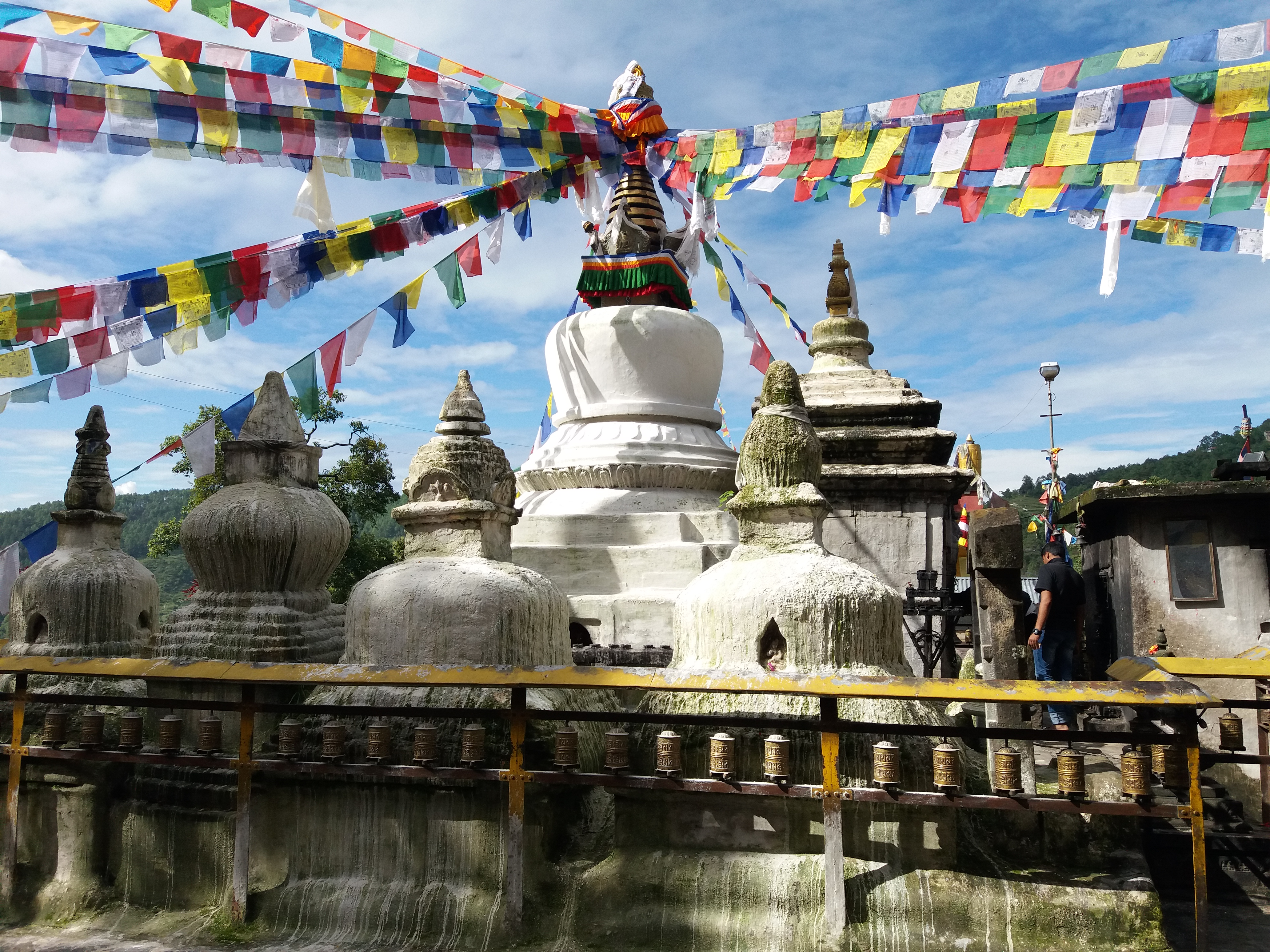 It is very best place to visit.